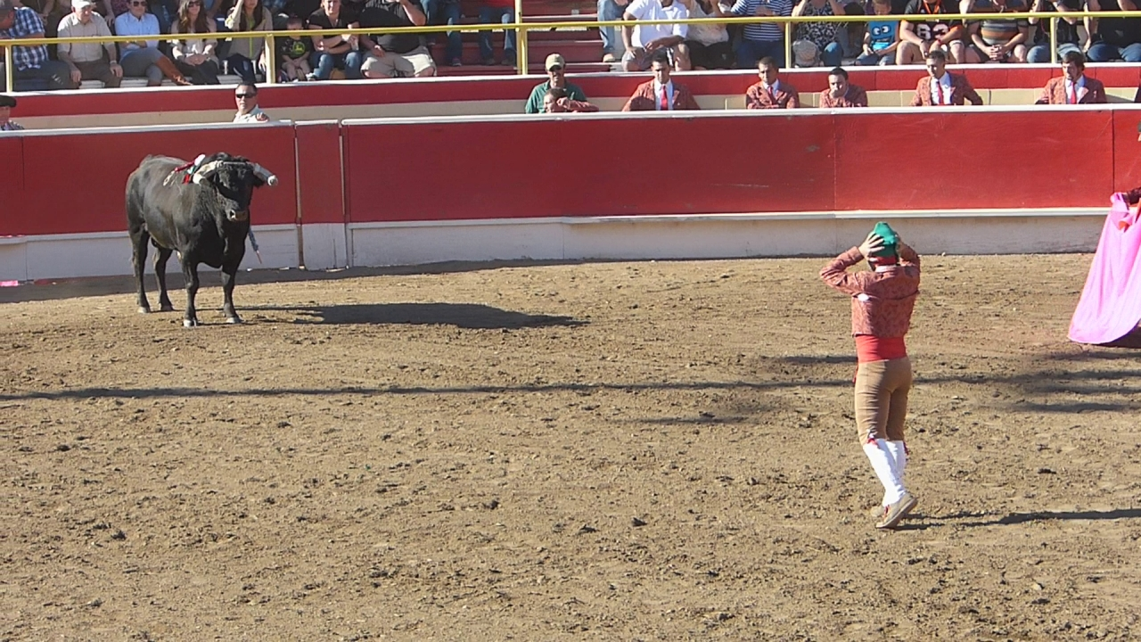 thornton2012-109